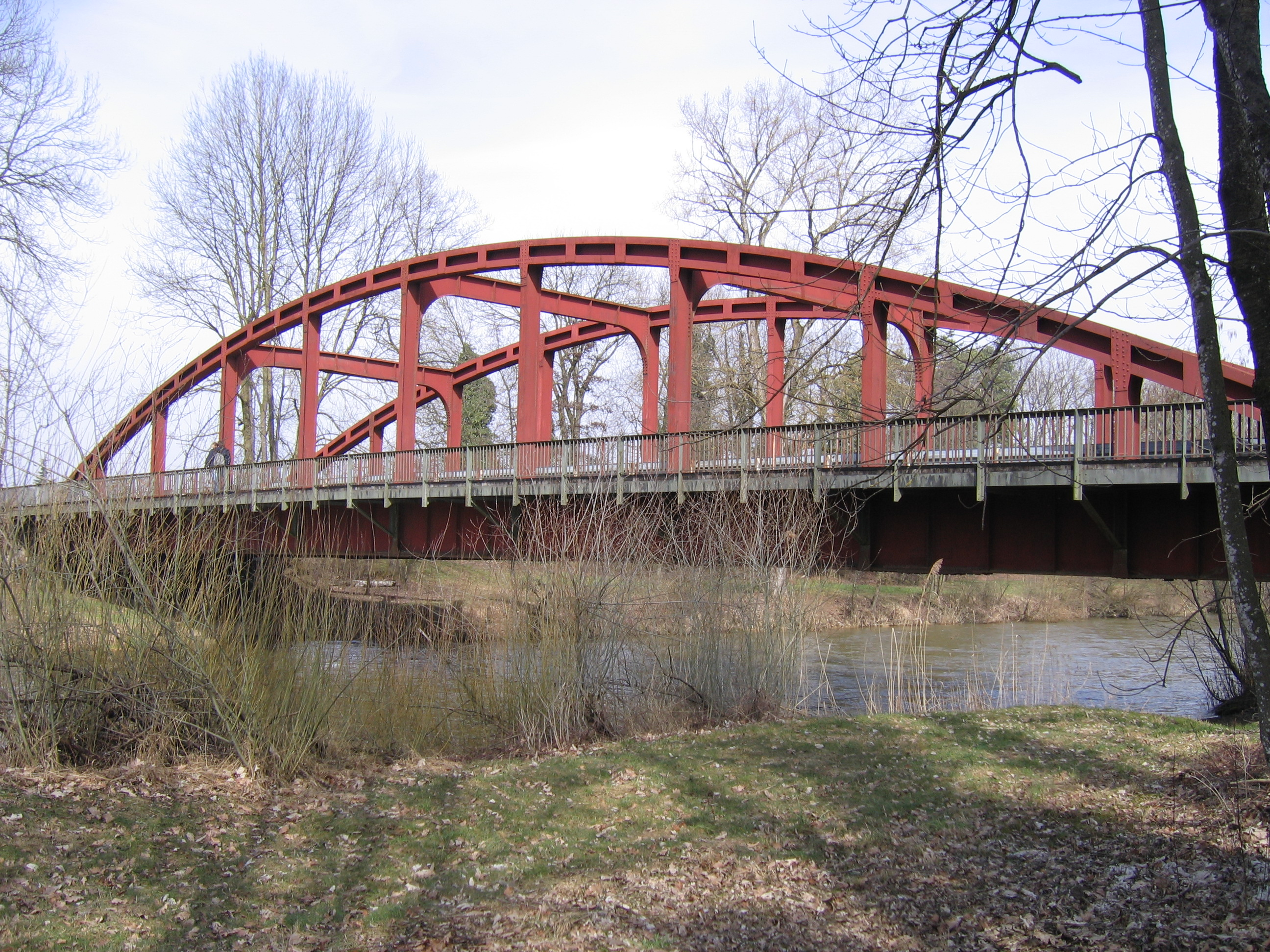 Germany - Baden-Württemberg - Bodenseekreis - Kressbronn/Langenargen: "Kocher Bridge", between Kressbronn-Kochermühle und Langenargen-Oberdorf